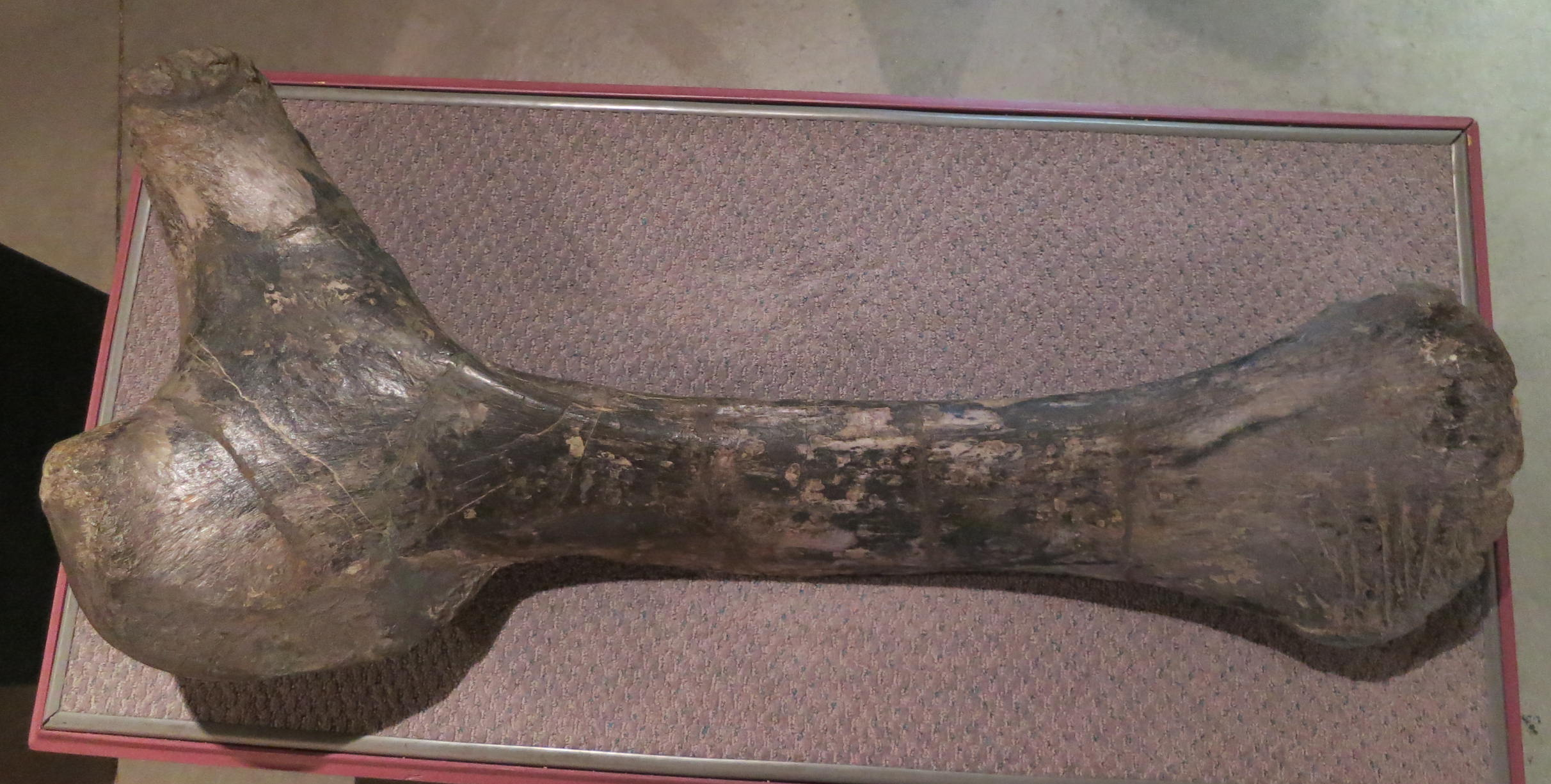 An Apatosaurus ilium with bite marks on the distal end, indicating that a big Morrison theropod literally ate the butt of this dead apatosaur.